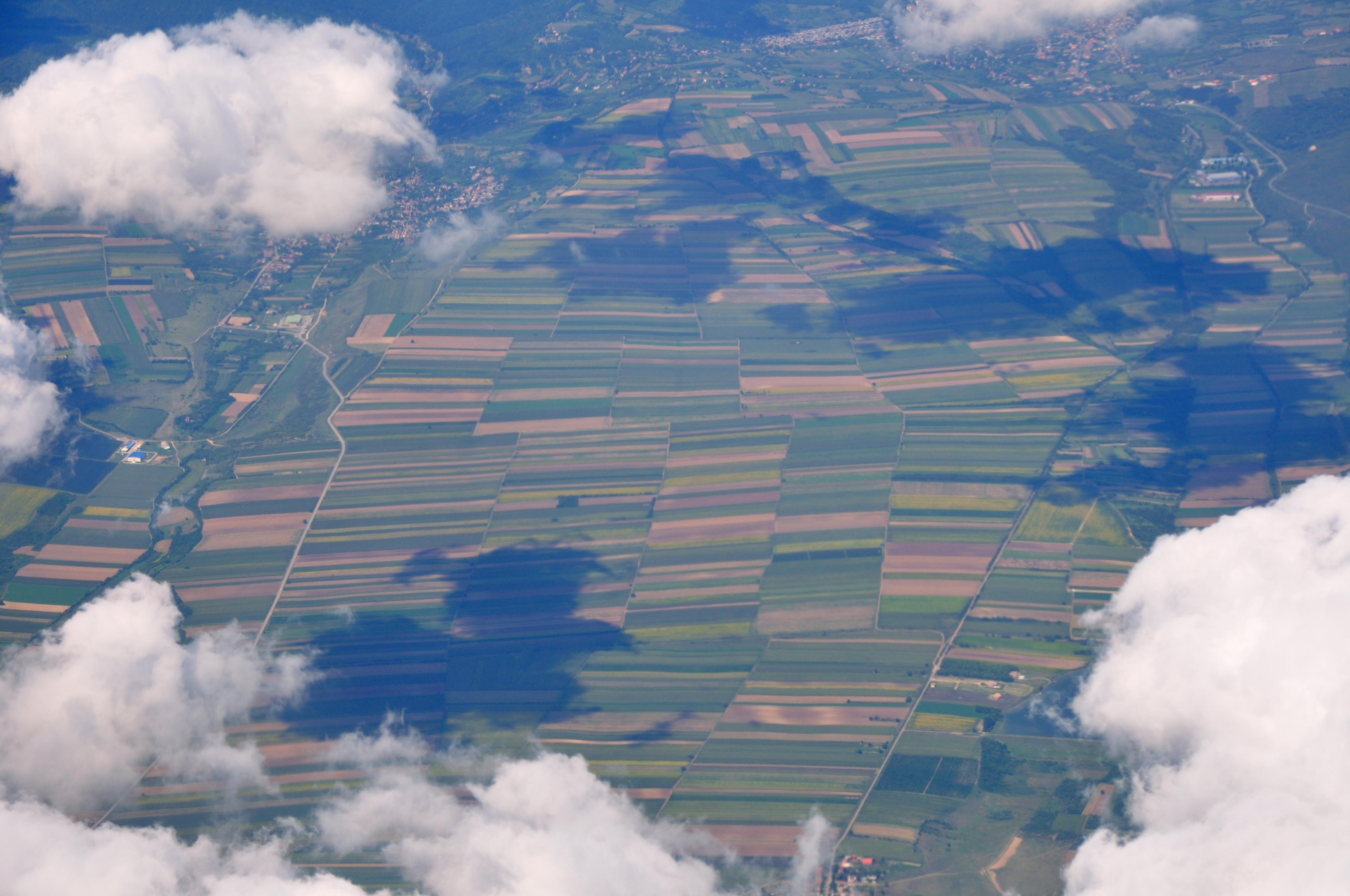 Serbia, aerial photograph after take-off in Belgrade.